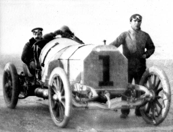 William K. Vanderbilt and his powerful Mercedes (1904). Found at the Florida Photographic Collect as item #N041926